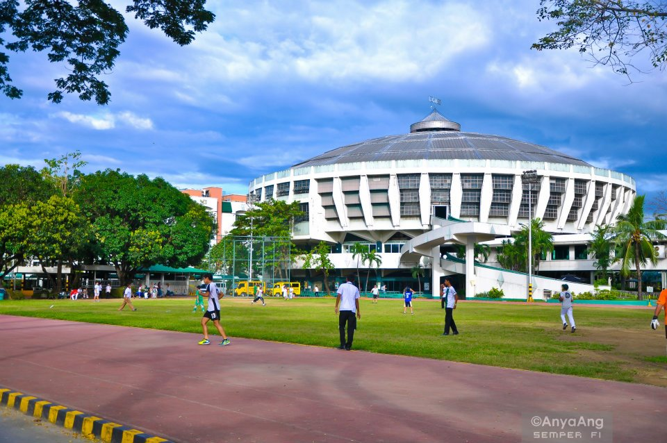 Taken late 2011.